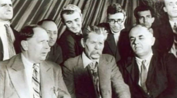 Tolstoy, Gorkiy and Mumtaz